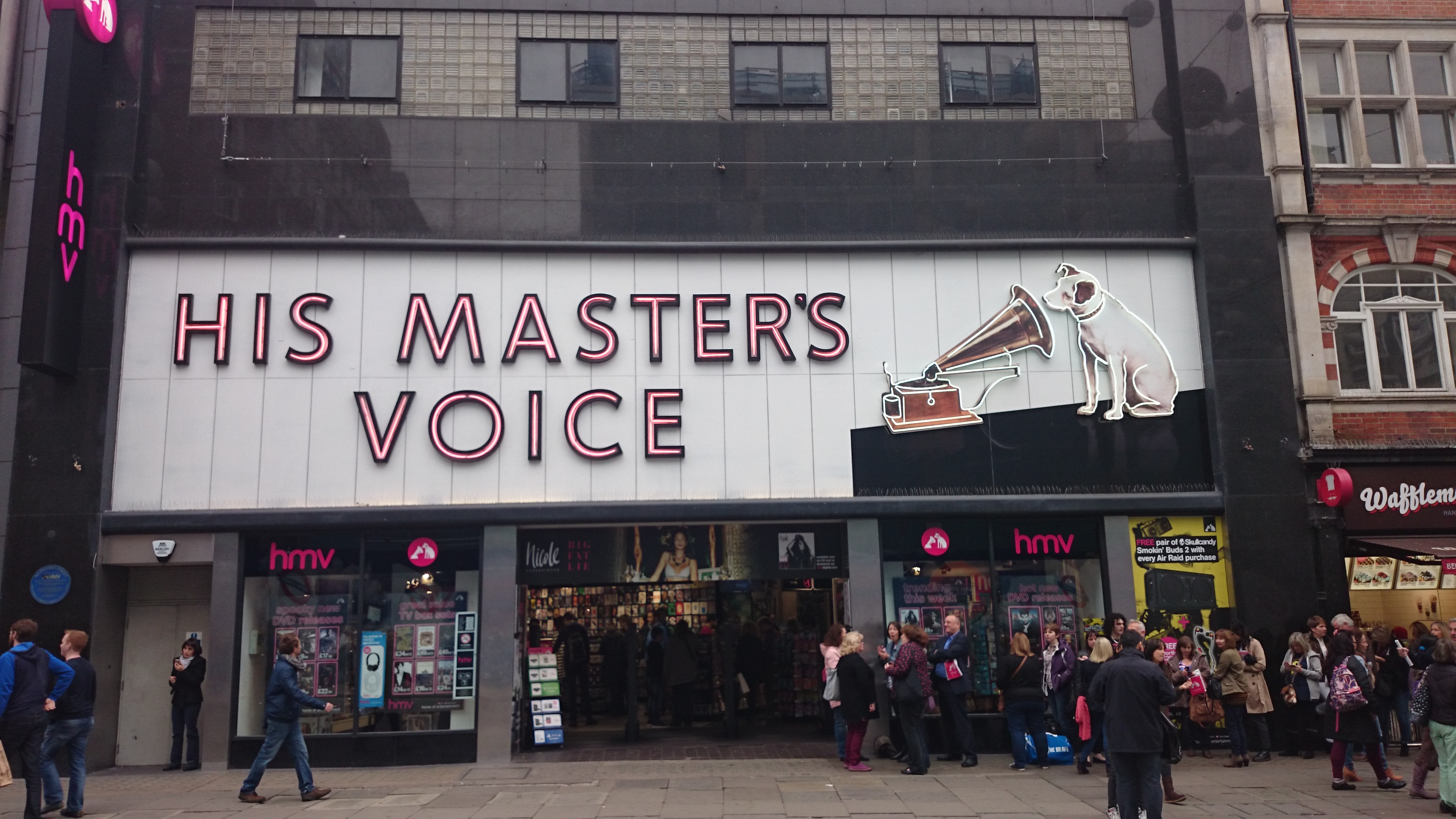 Retro neon sign created at the HMV flagship store.